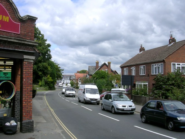 Lyndhurst has been made into a big one-way system to cope with the volume of traffic flowing through it (especially during holidays), with a traffic light junction where the A337 meets the A35. It is inevitable that travellers from the north will have to wait for a while on this stretch of road - sometimes the queue can extend for a mile or so.